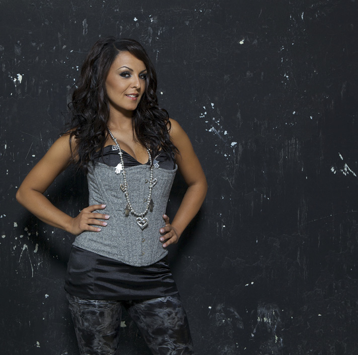 A picture of Linda Mertens, front woman for Milk inc. from the photoshoot of their Nomansland album